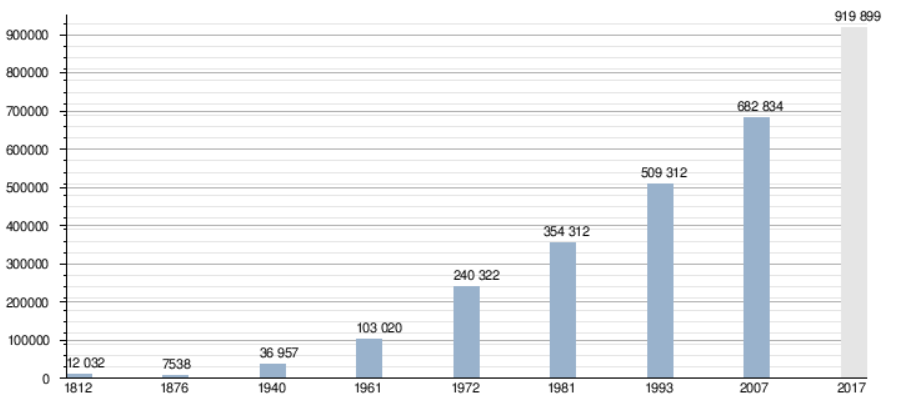 Población demografía de Trujillo - Perú 1812 - 2017.